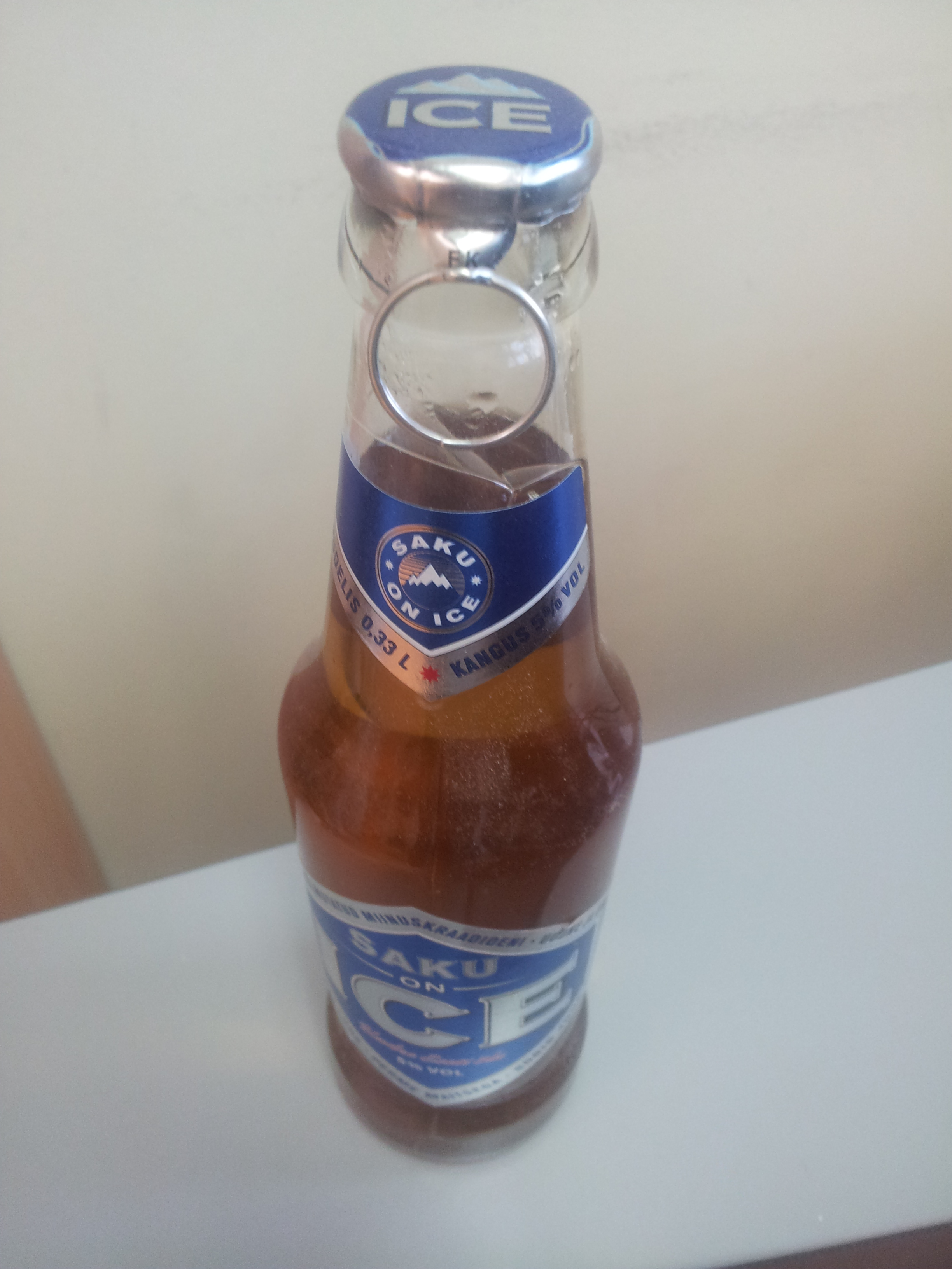 A type of pull-off bottle cap